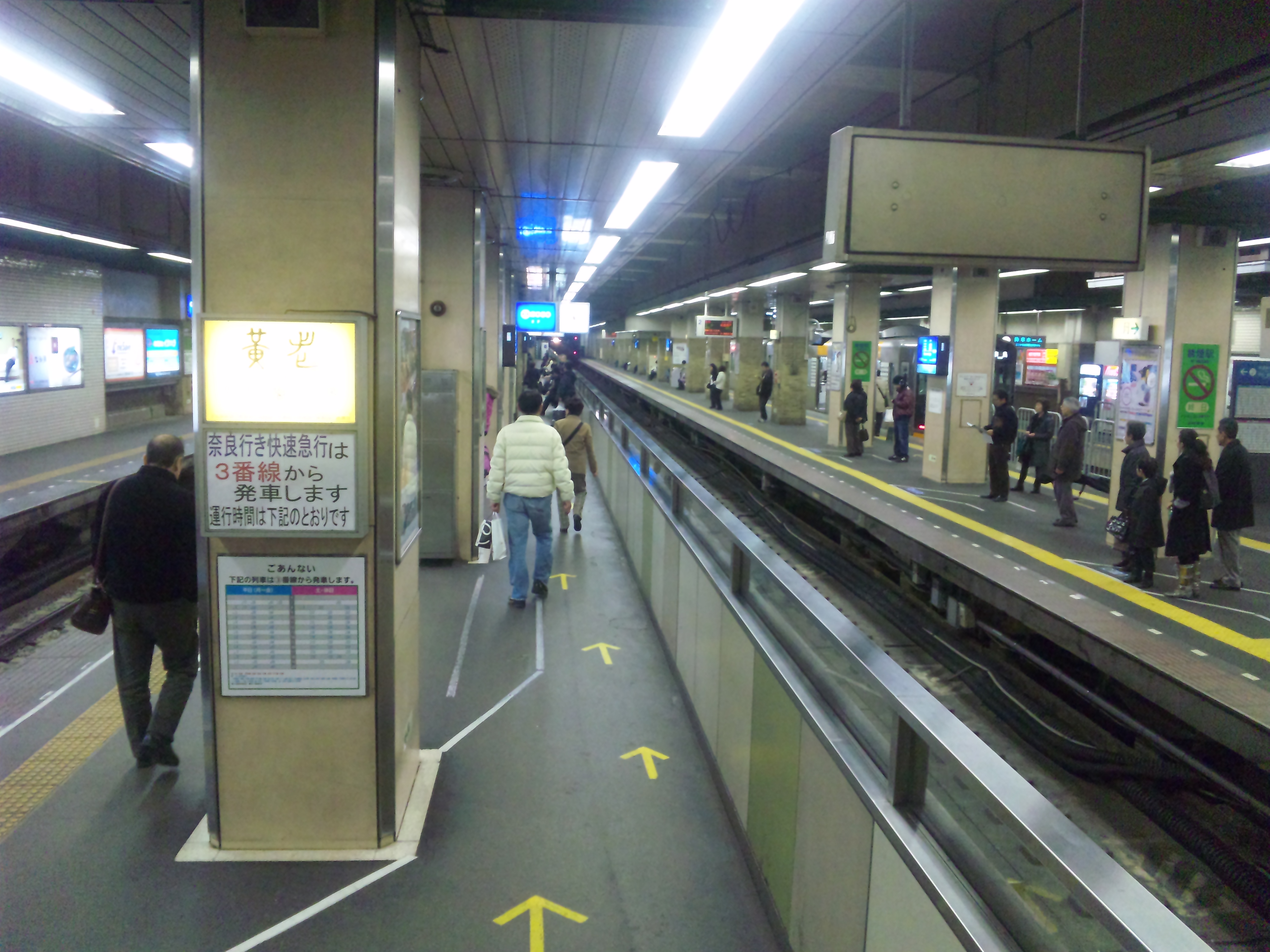 Hanshin Sannomiya Station platform